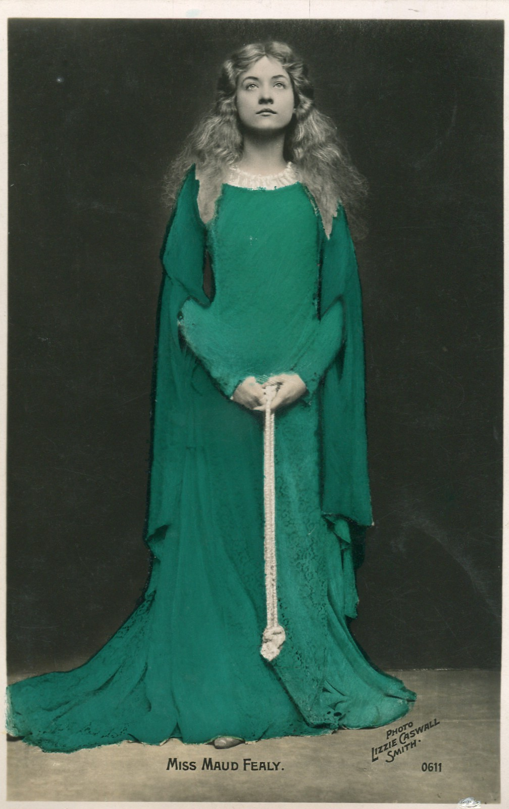 Rotophot